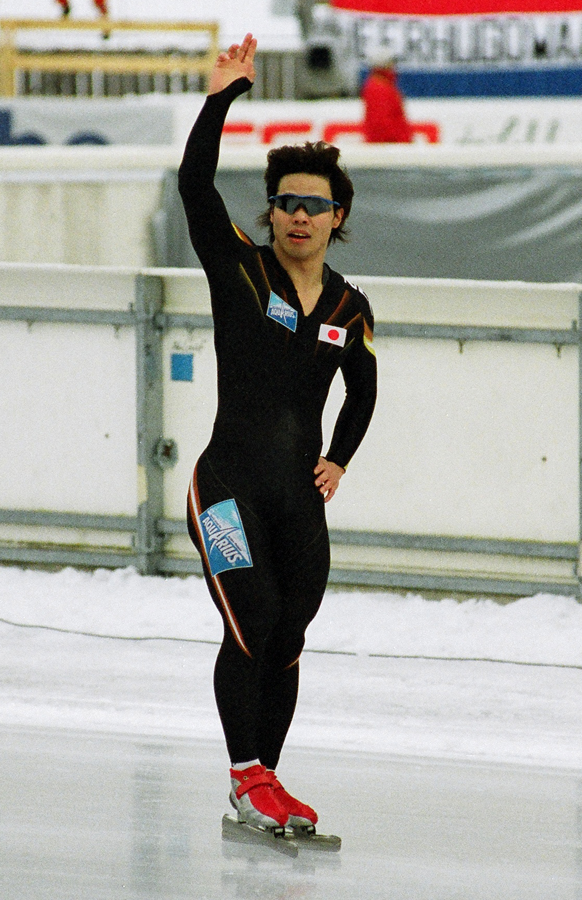 Hiroyasu Shimizu is a speedskater from Japan.